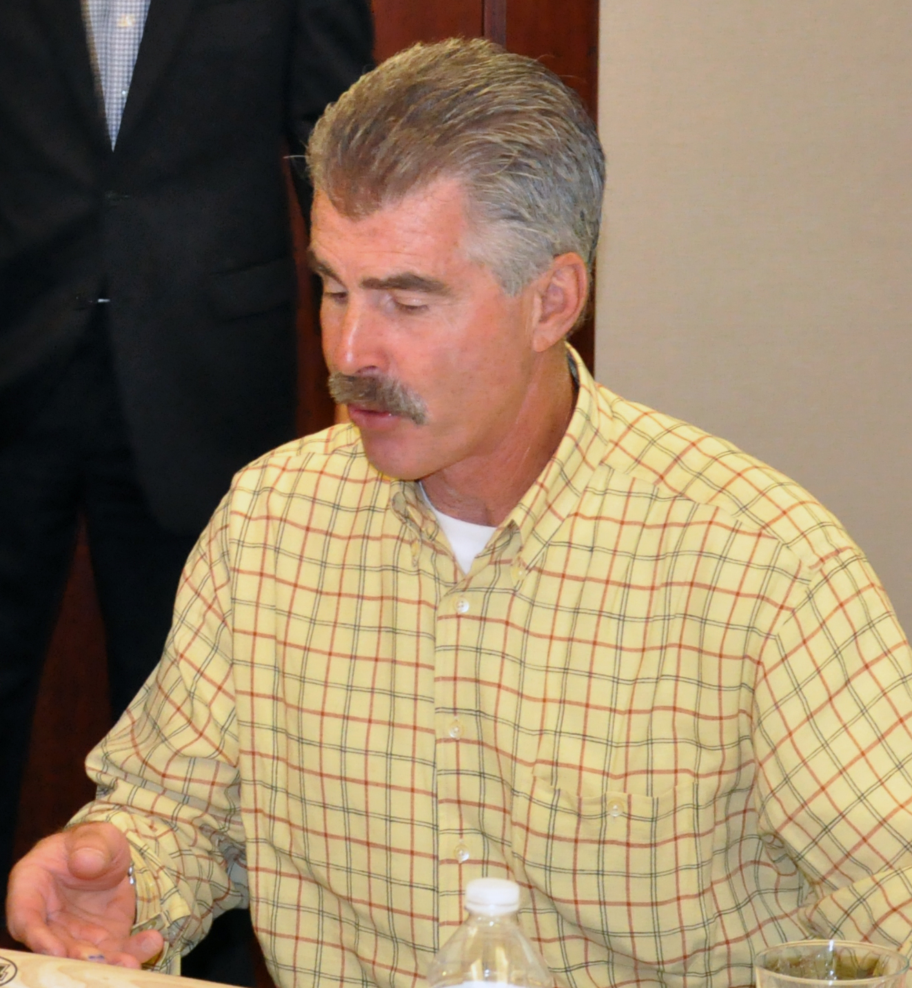 Former Red Sox player Bill Buckner prepares to sign a bat for Spc. Jeff Jones of the Natick Soldier Systems Center before the May 20 BoSox Club luncheon in Waltham Mass. →This file has been extracted from another file: Bill Buckner signs autographs for soldiers.jpg